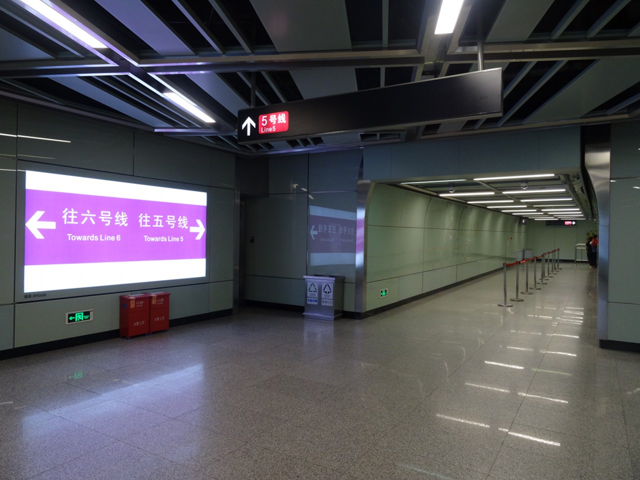 区庄站嘅换乘通道